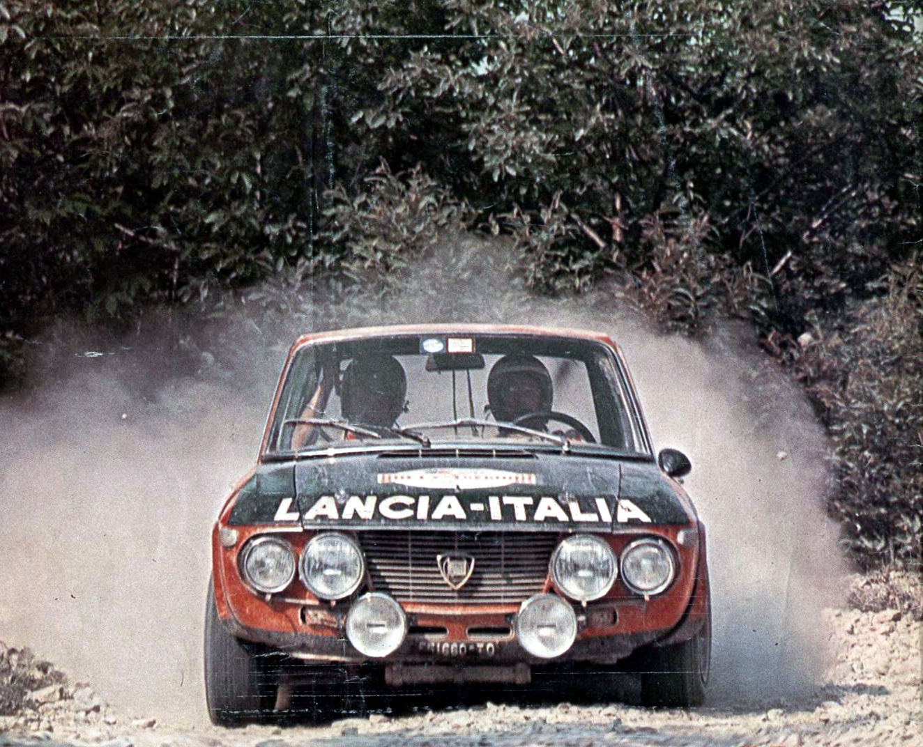 Northwest Italy, June 4, 1972. Italian rally driver Sergio Barbasio and his co-driver Piero Sodano on a Lancia Fulvia 1.6 Coupé HF at the 1972 Rallye 4 Regions.